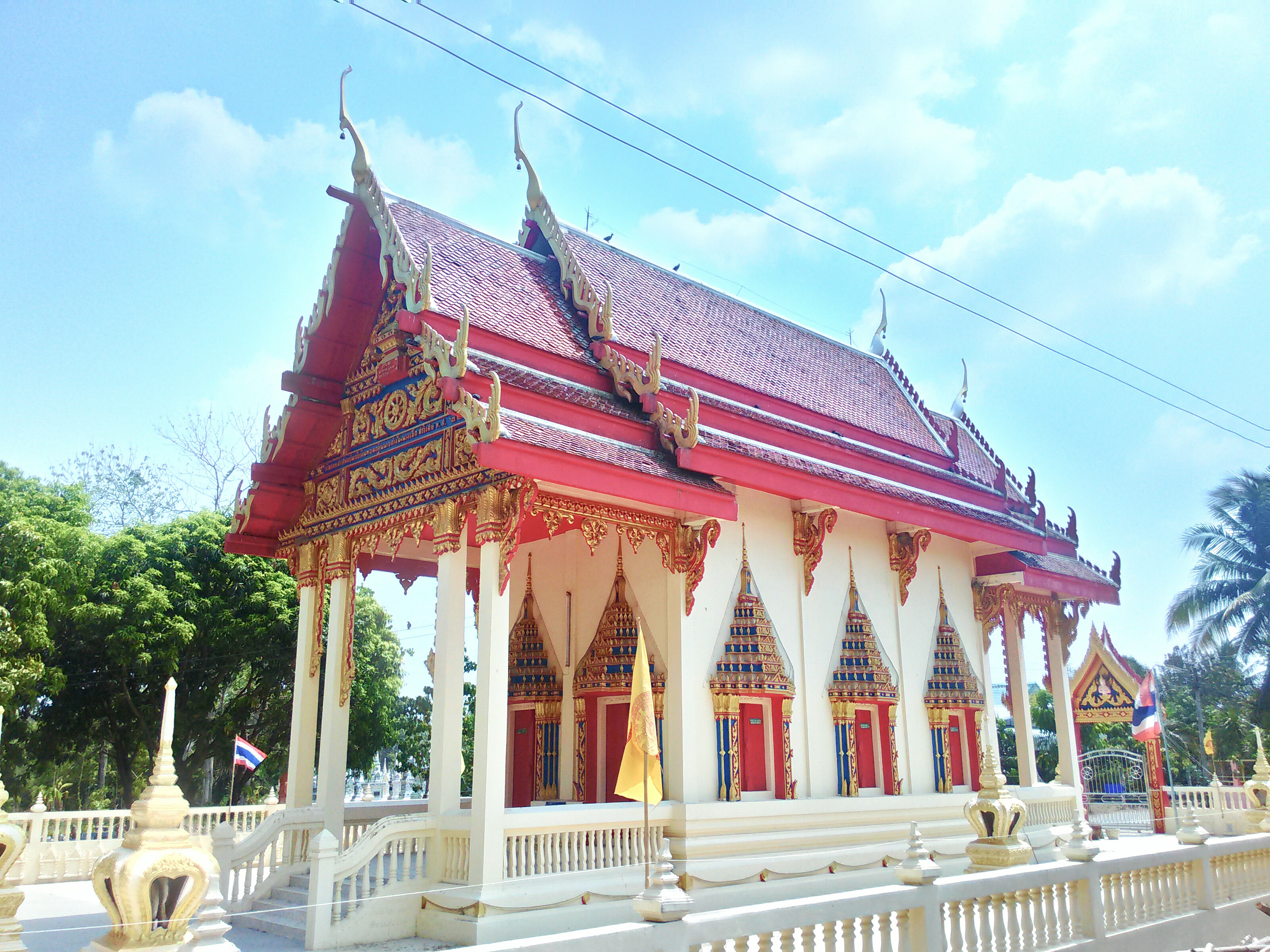 Wat Hoy Lee in Saraburi, Thailand